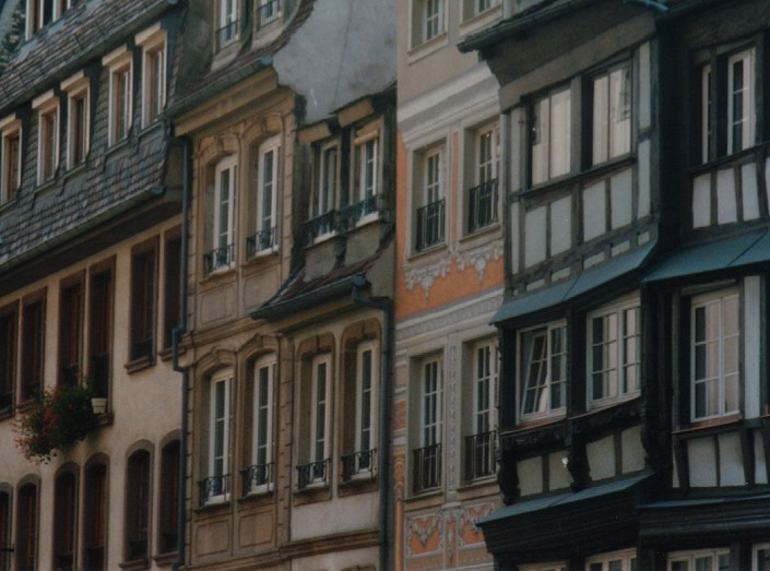 Old houses in the Petite France section of Strasbourg